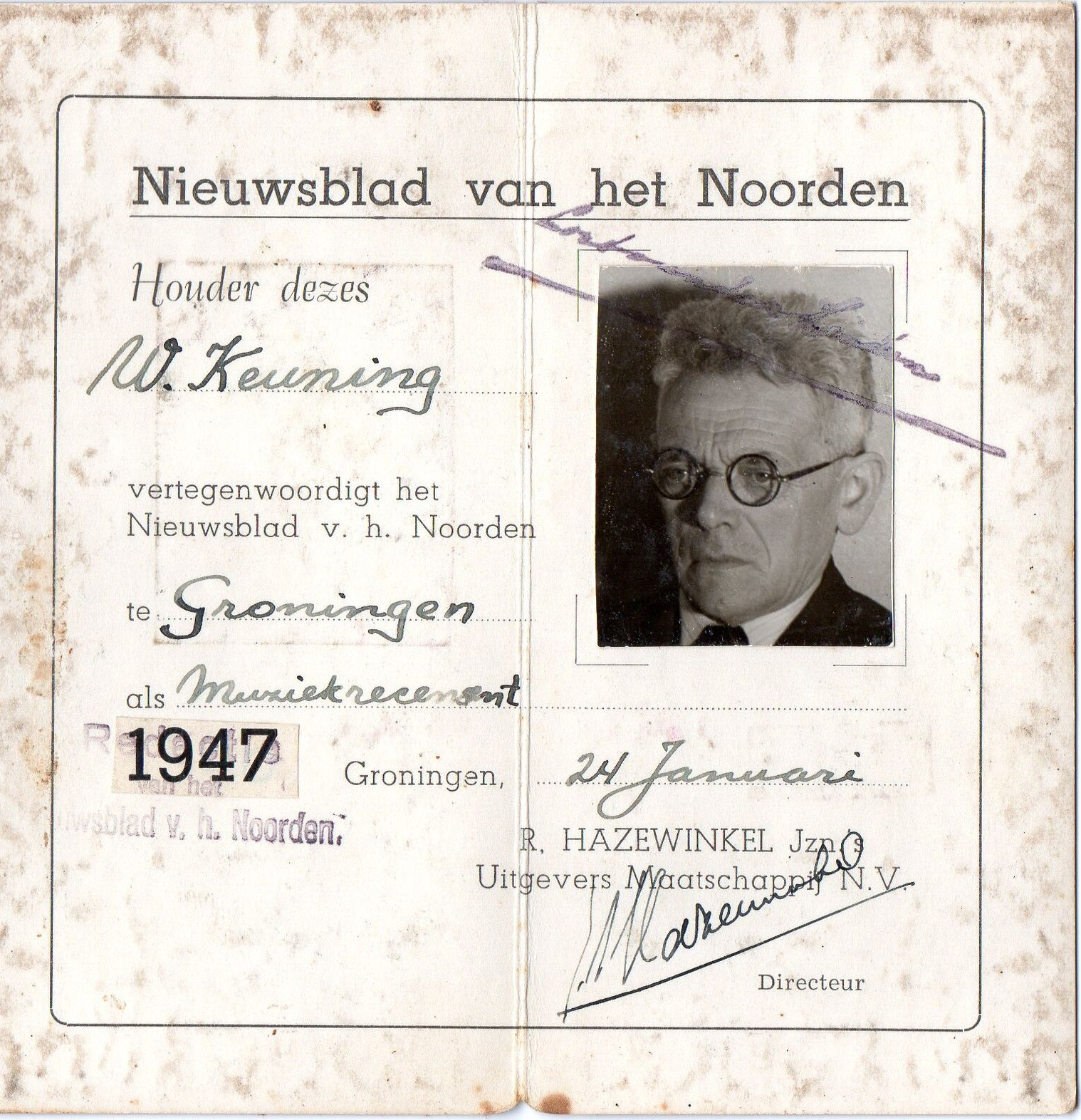 Wytze Keuning press card 1947